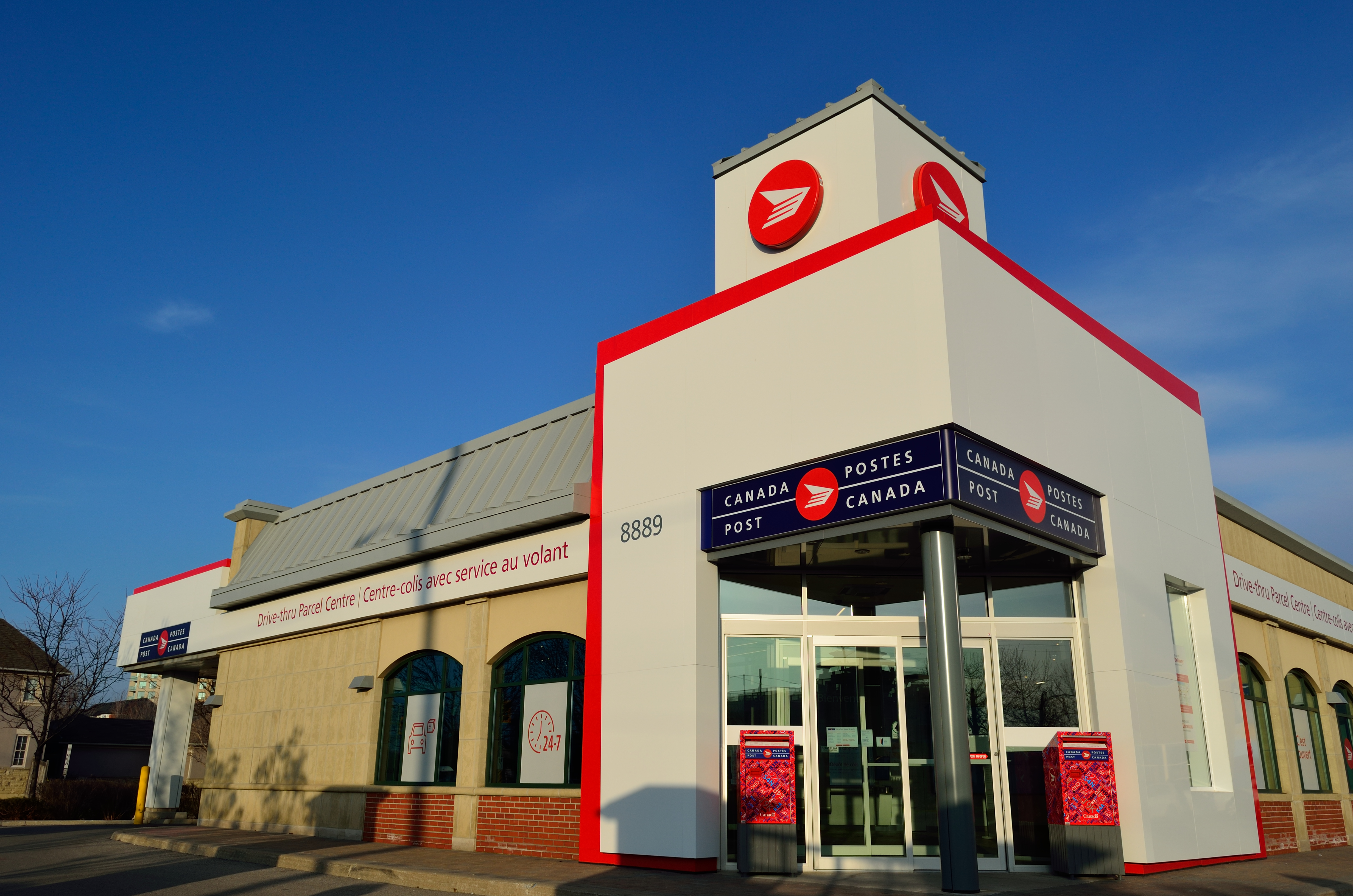 Drive-thru Parcel Centre at 8889 Yonge Street, Richmond Hill.